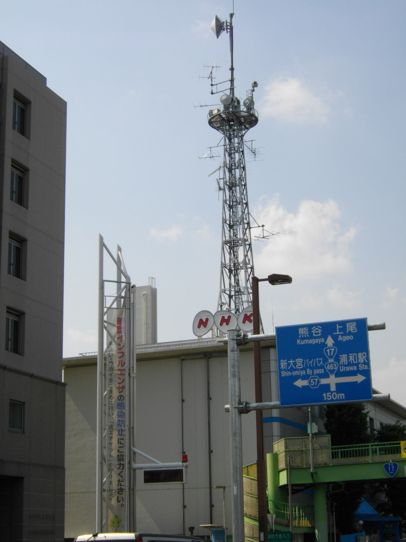 NHK Saitama Broadcasting Station